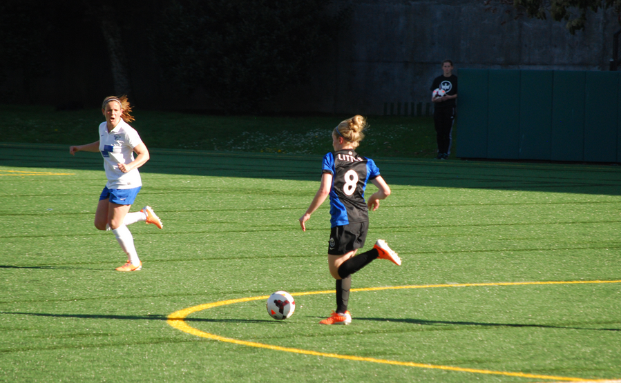 Seattle Reign FC vs Boston Breakers, April 13, 2014 at Memorial Stadium in Seattle, Washington